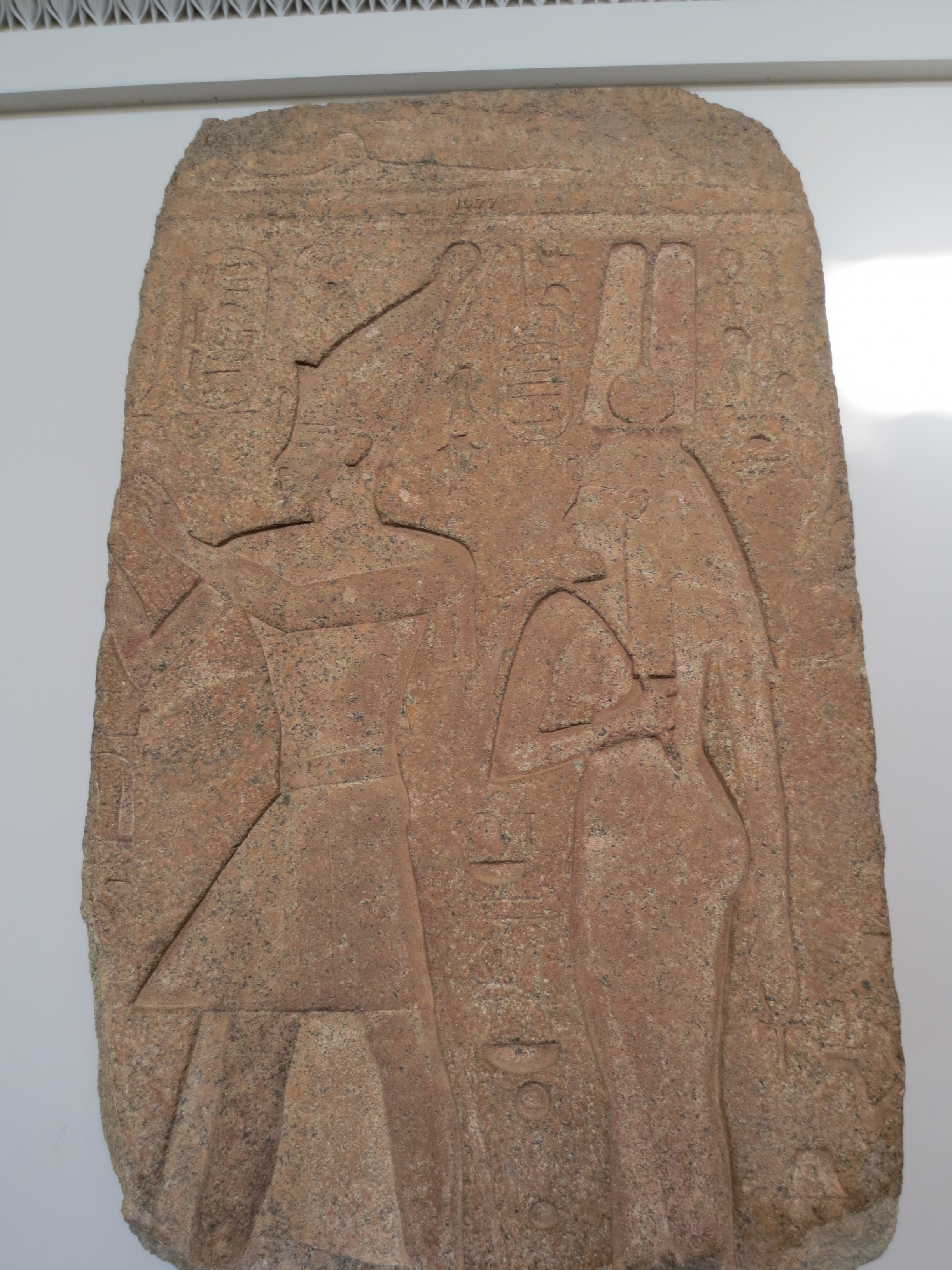 This Fragment of a temple wall from Bubastis shows Osorkon II and Queen Karoma standing before a deity.